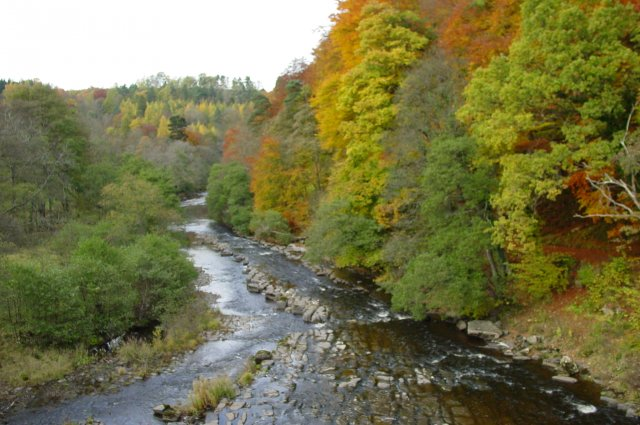 River Allen, taken from the Cupola Bridge at Whitfield. A lovely warm autumn day, the river is a peaty colour as the water comes off the moors.